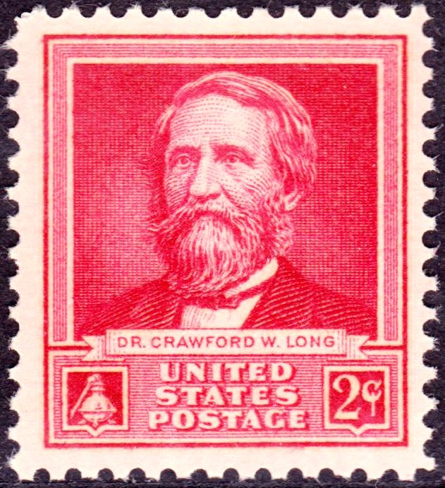 Dr_Crawford_W_Long_1940_Issue-2c.jpg Crawford long